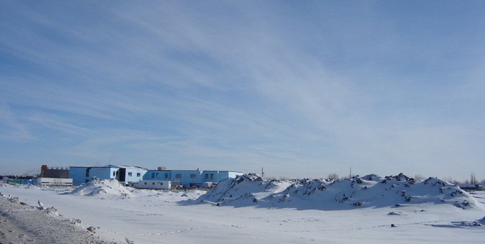 Consruction Site Blairmore Suburban Centre, Blairmore SDA, Saskatoon, Saskatchewan, Canada